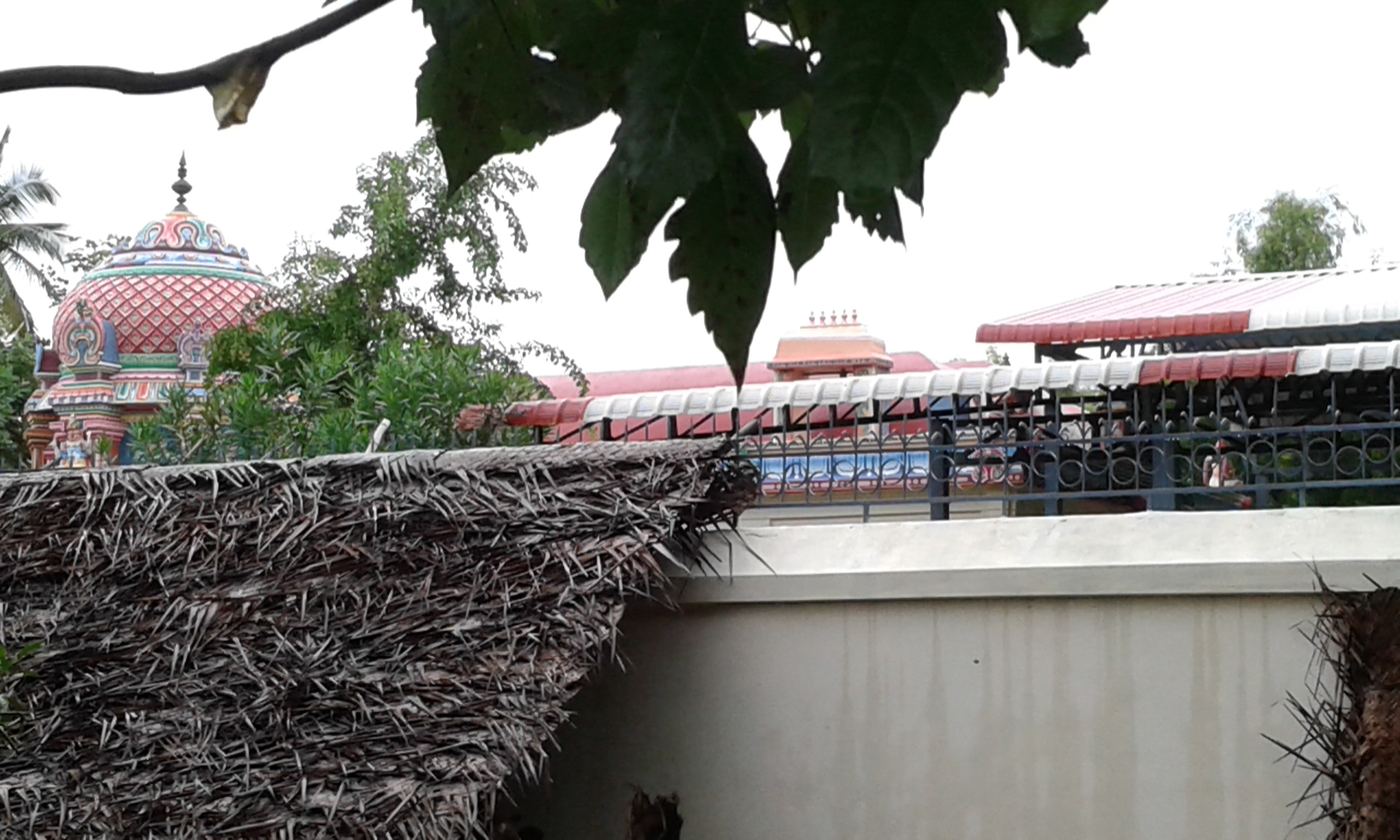 Thiruthevanartthogai